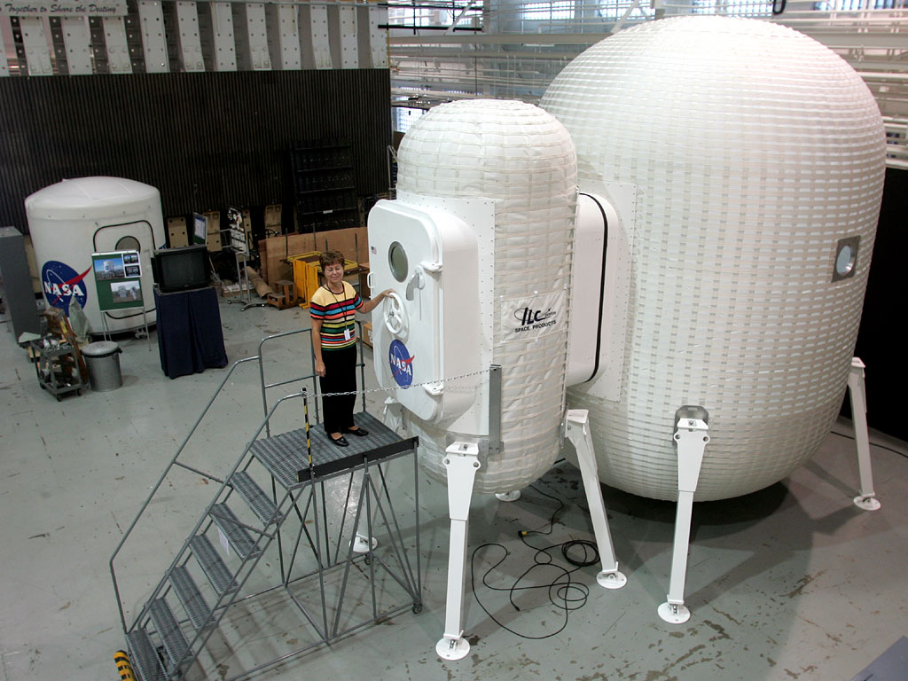 Inflated lunar habitat to be used by the NASA.